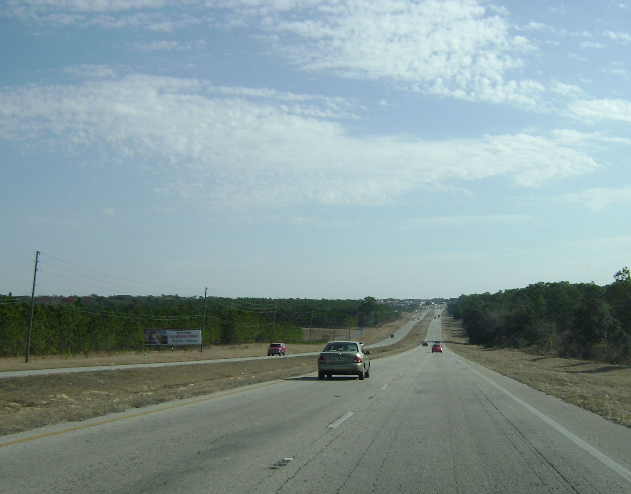 Eastbound Florida State Road 44 seen a few yards after passing Run for the Roses Drive near Inverness. This section of the highway marks the northern border of Withlacoochee State Forest.